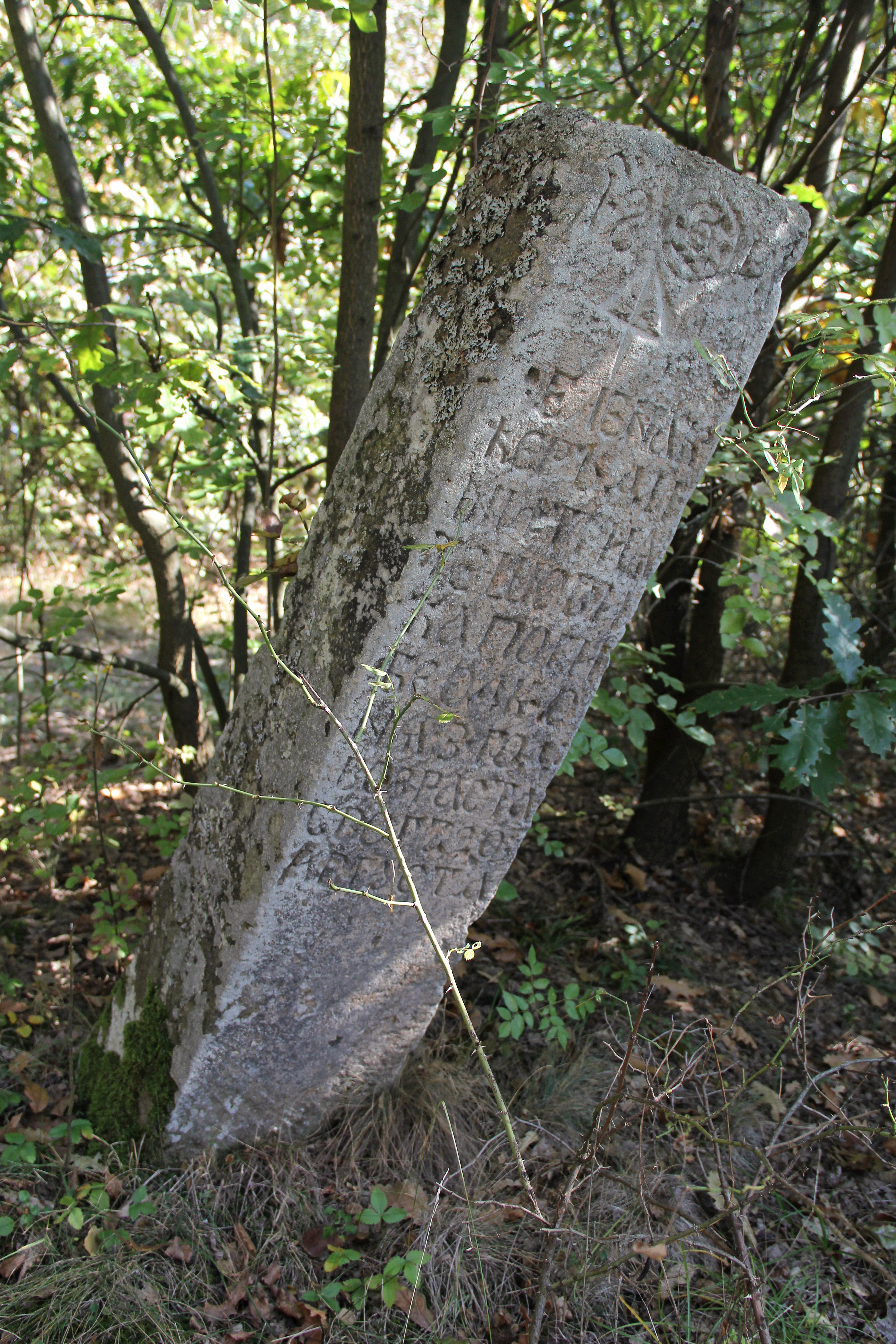 Roadside tombstone in the village of Donji Branetici (municipality of Gornji Milanovac), Serbia.